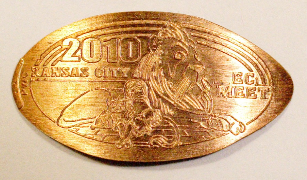 Elongated coin "Kansas City EC Meet 2010"